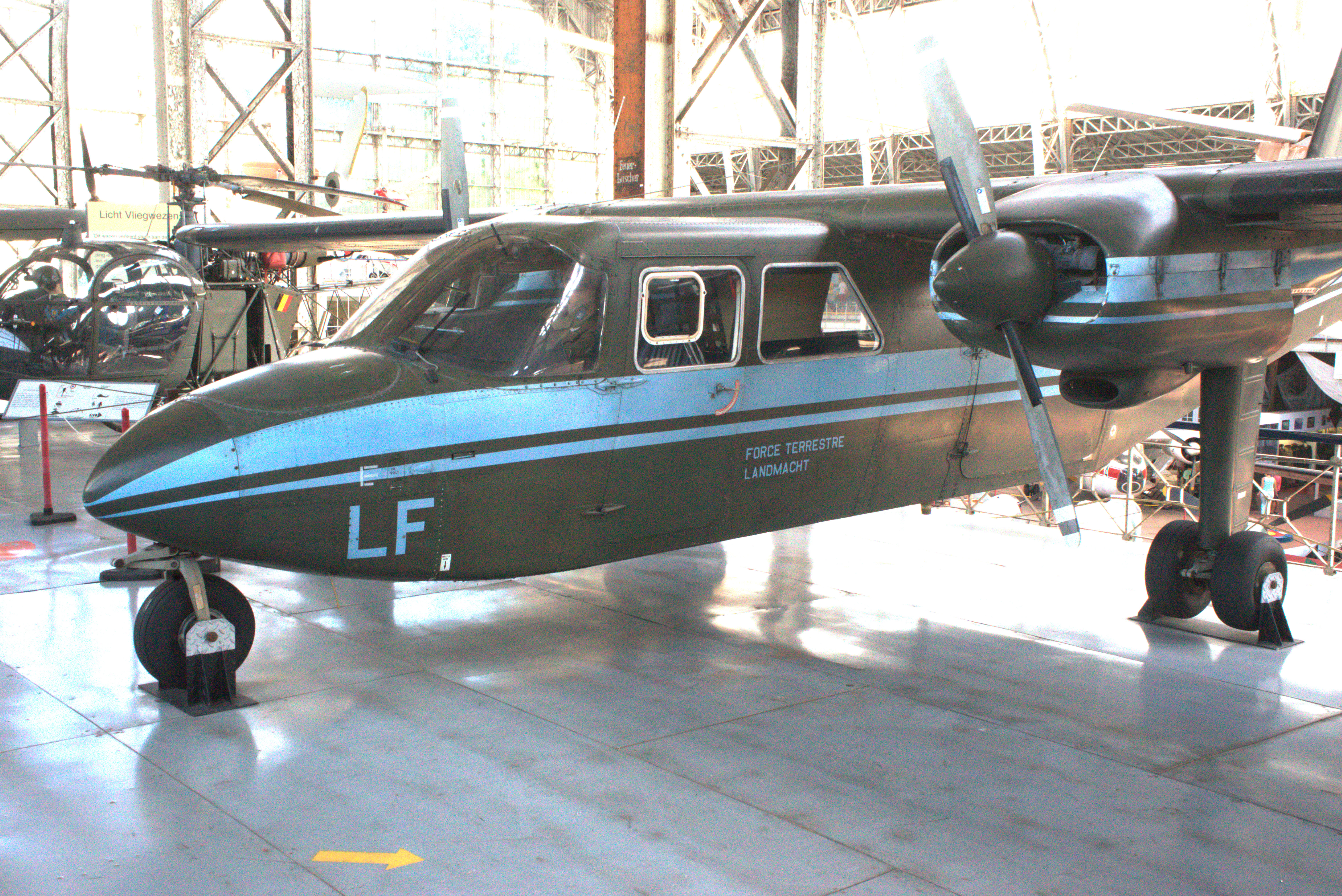 This is a file created at the museum: Royal Museum of the Armed Forces and of Military History in Brussels